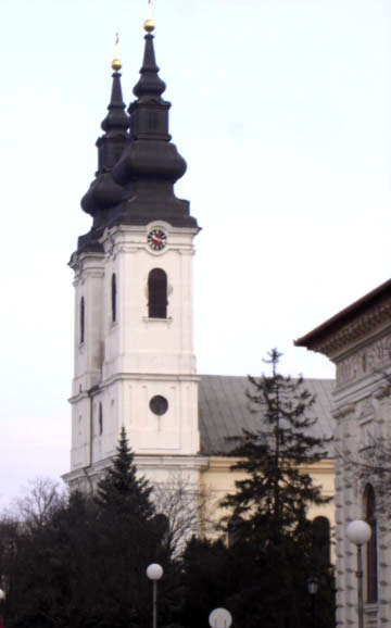 The Orthodox church in Srbobran /Vojvodina /Serbia